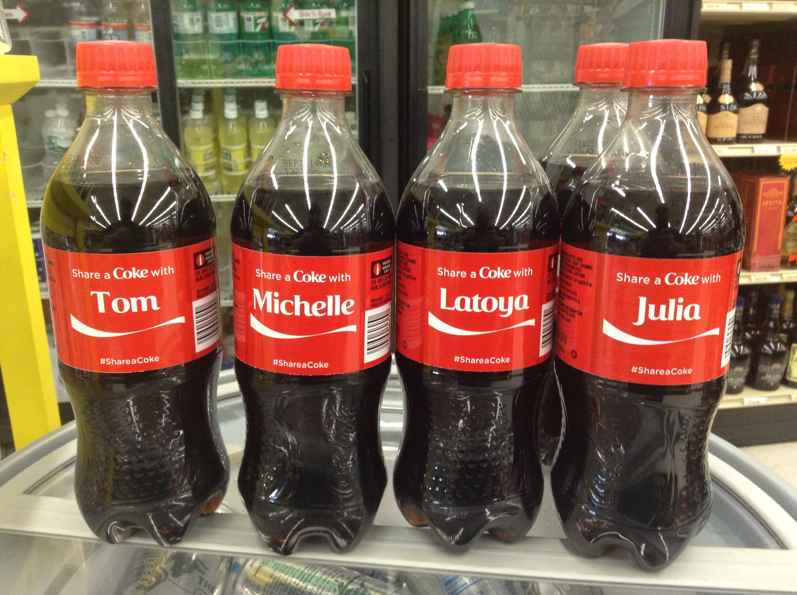 Share a Coke Name Promotional Coca Cola Bottles. Pics by Mike Mozart of TheToyChannel and JeepersMedia on YouTube. #ShareACoke #CocaCola #CocaColaNames #CocaColaPromotion